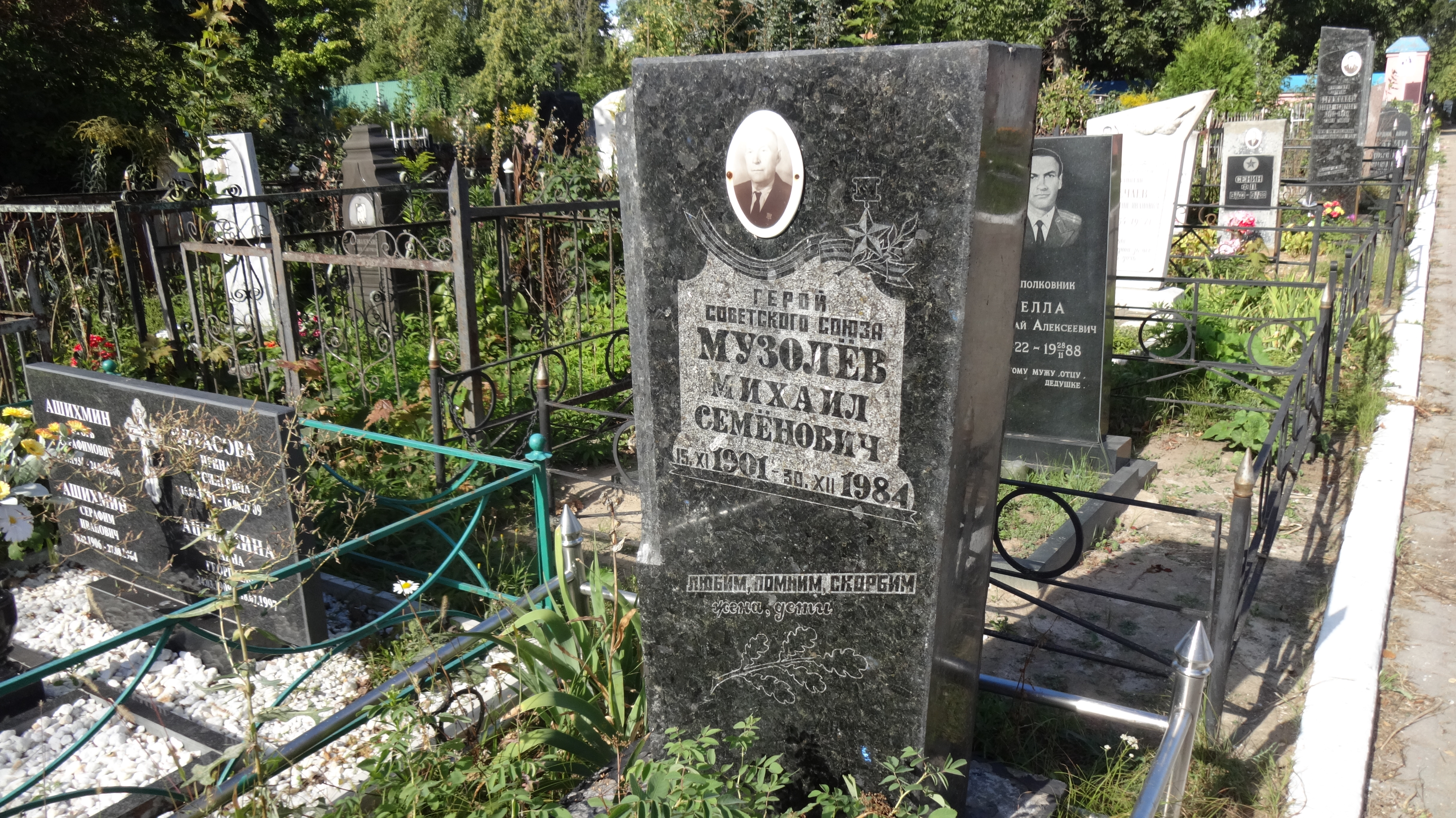 Gravestone of Mikhail Semyonovich Muzolyov, Hero of the Soviet Union, in Oryol.